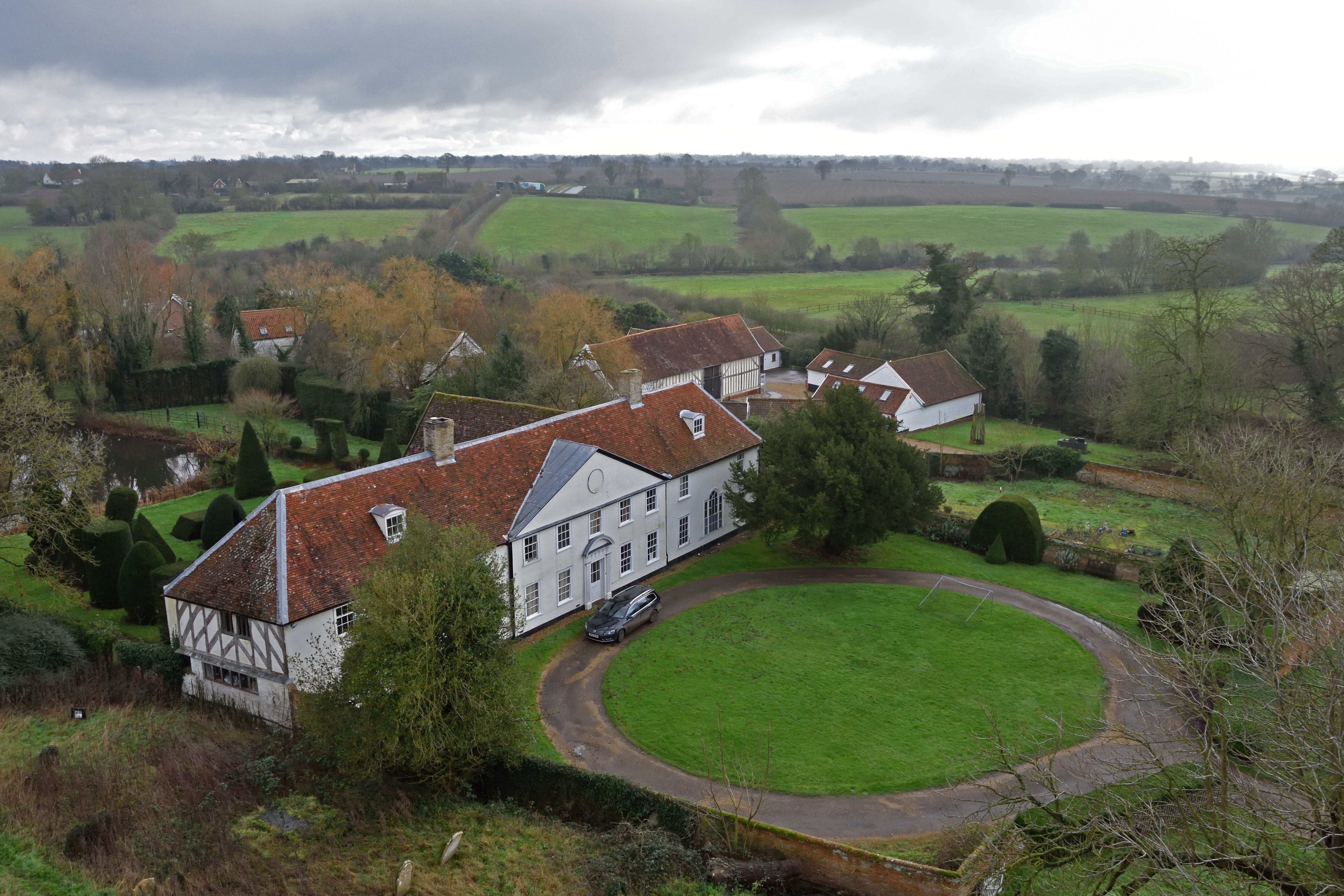 Wingfield College and the adjacent Wingfield Barns beyond